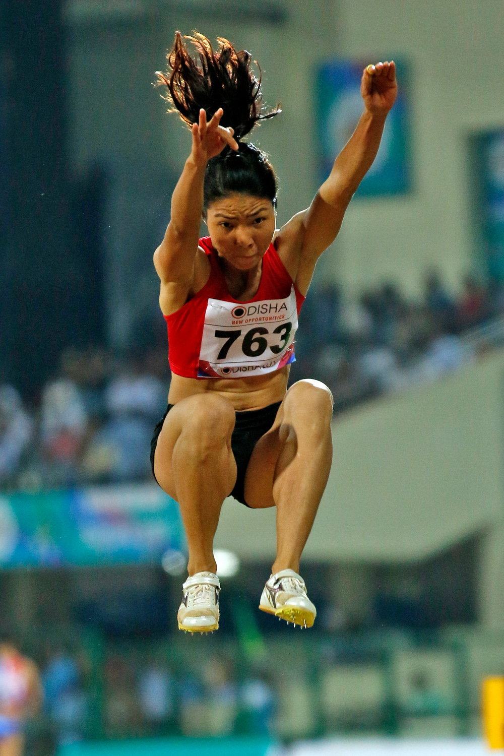 Athletes during 22nd Asian Athletics Championships in Bhubaneswar.